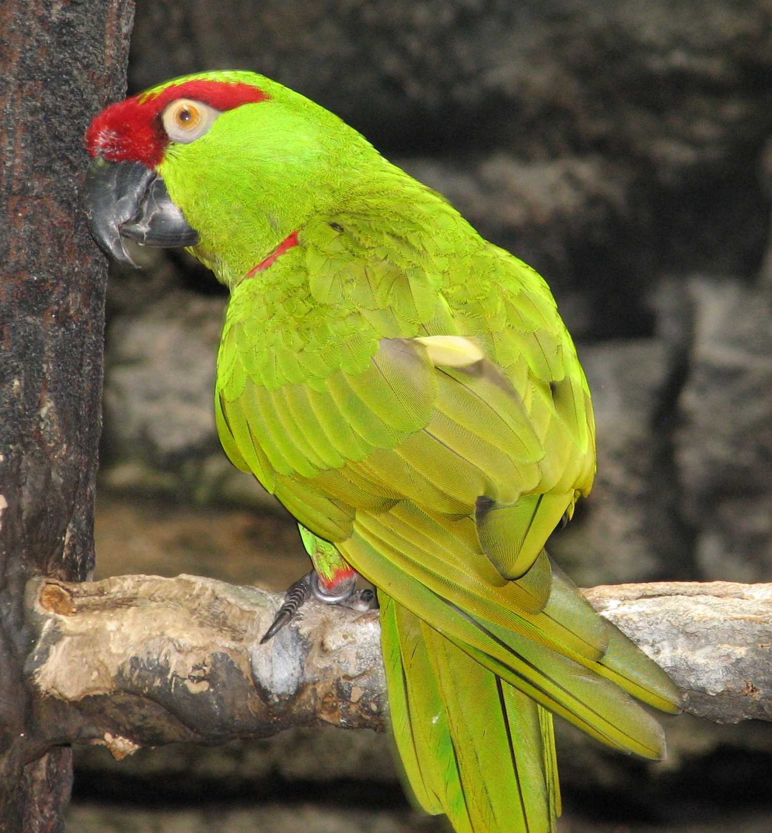 Thick-billed Parrot - Rhynchopsitta pachyrhyncha at Cincinnati Zoo